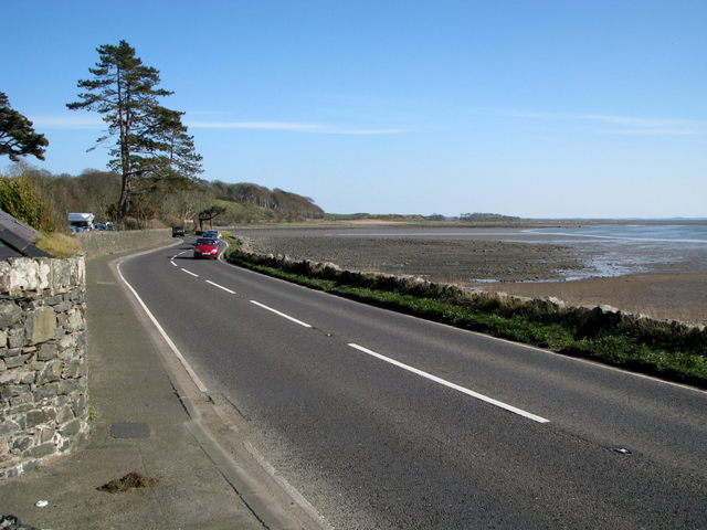 Portaferry Road at Mount Stewart The Portaferry Road near the entrance to Mount Stewart with the shoreline of Strangford Lough to the right.